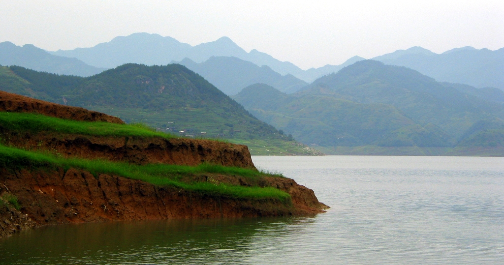 The following is the author's description of the photograph quoted directly from the photograph's Flickr page."north-east of sichuanSee where the photo was taken at Yuan.CC Maps. "